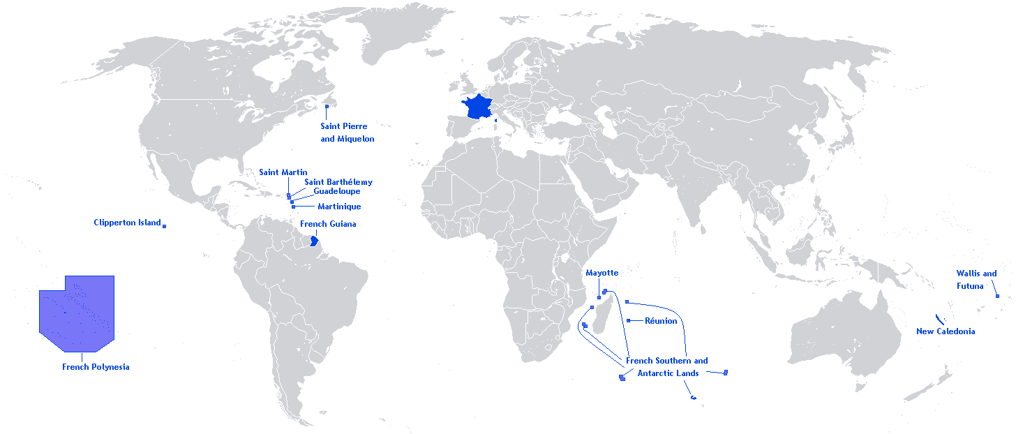 A map showing the Overseas departments and territories of France, excluding the territory of Adélie Land in Antarctica, where sovereignty is suspended